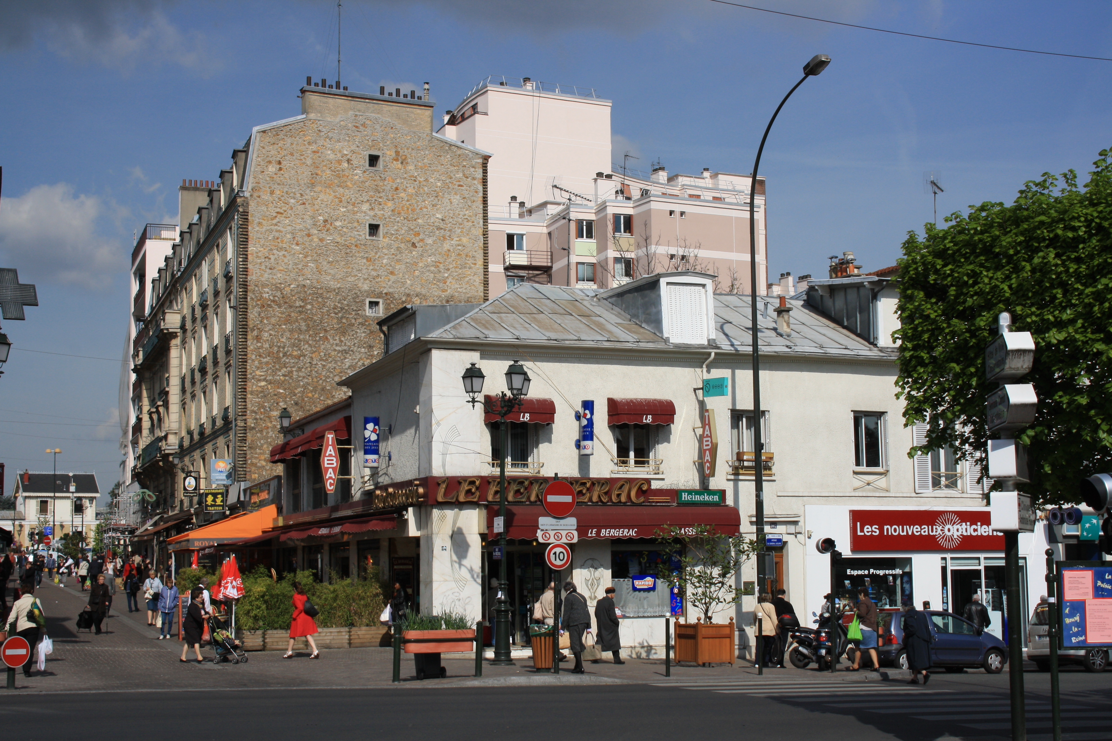 Building located on 102 avenue du Général Leclerc in Bourg-la-Reine, France